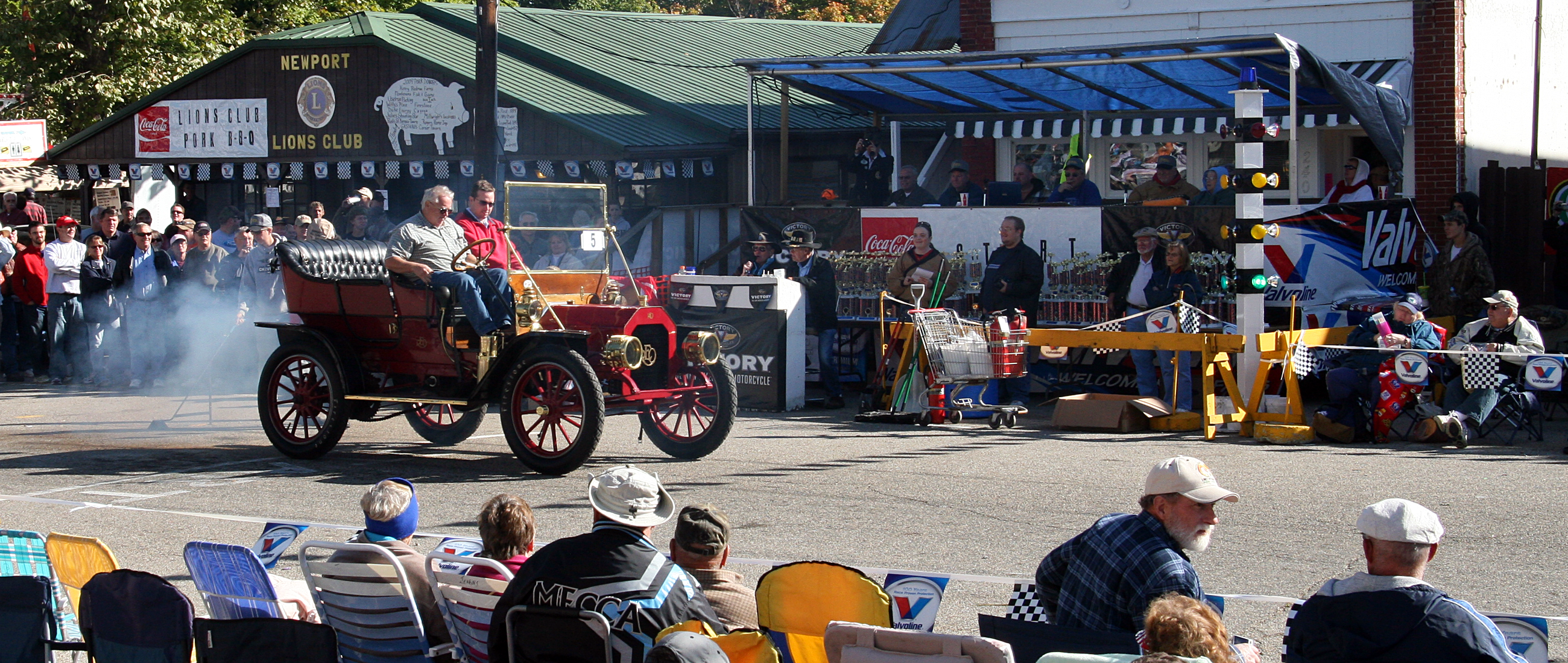 An REO leaves the starting line of the 2009 Newport Antique Auto Hill Climb in Newport, Indiana.